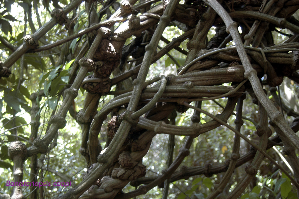 Banisteriopsis caapi